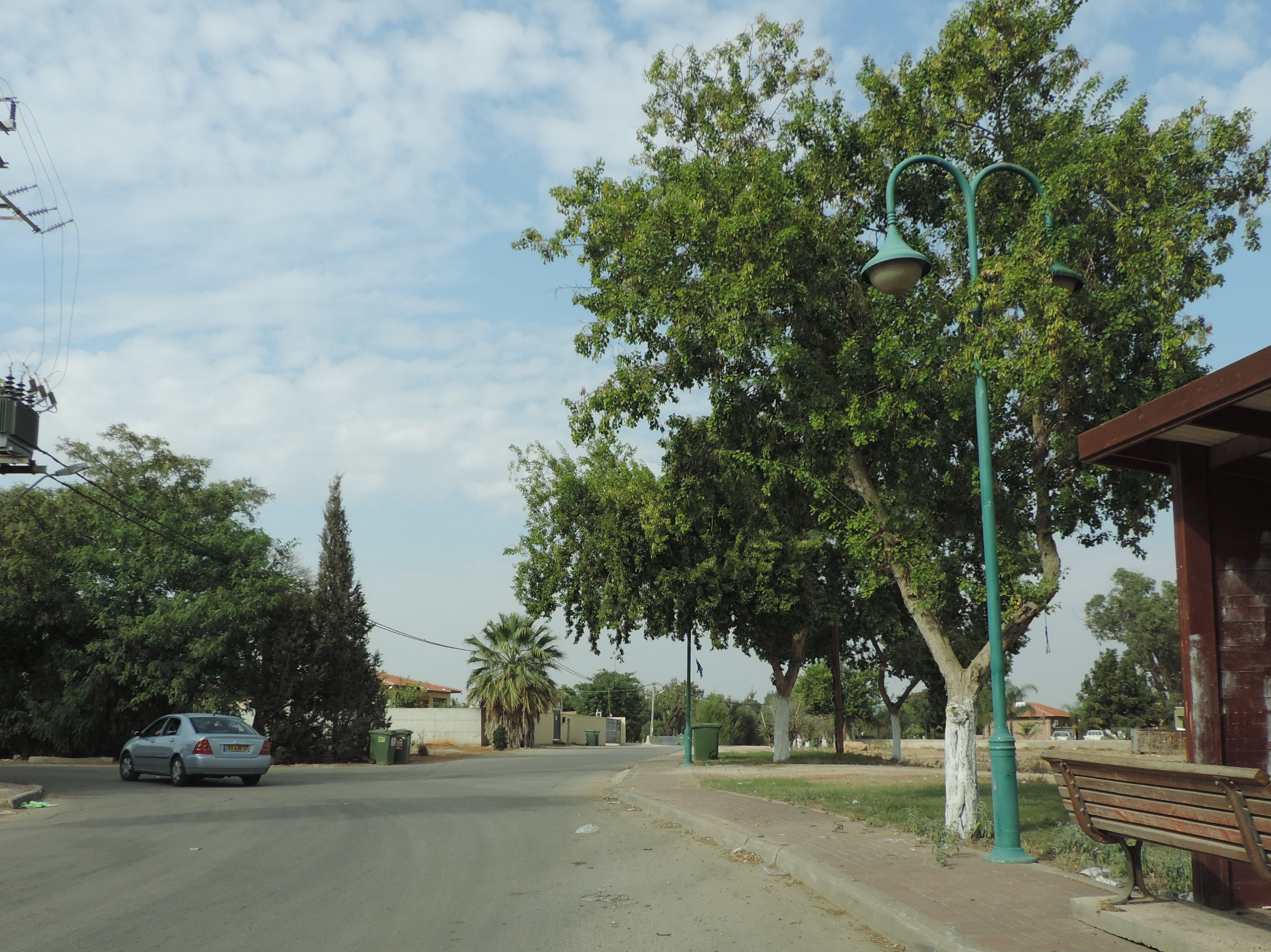 Ahuzam, or Ahuzzam is a moshav in the Lakhish Regional Council in the Southern District of Israel. It is located about 5 km south of Kiryat Gat.